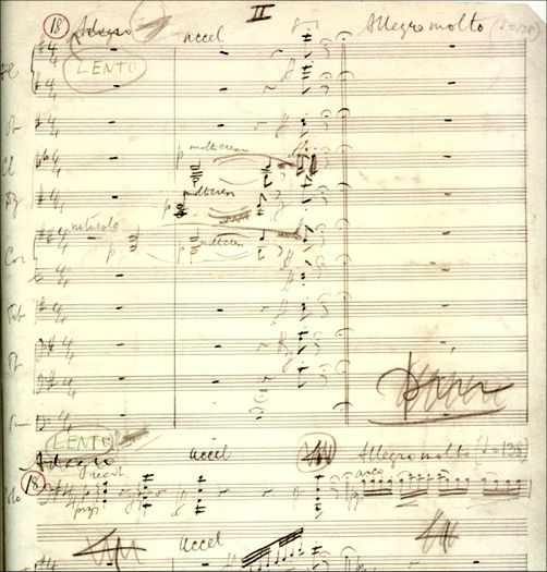 Page of the manuscript by Edward Elgar (1857-1934) for his Cello Concerto.